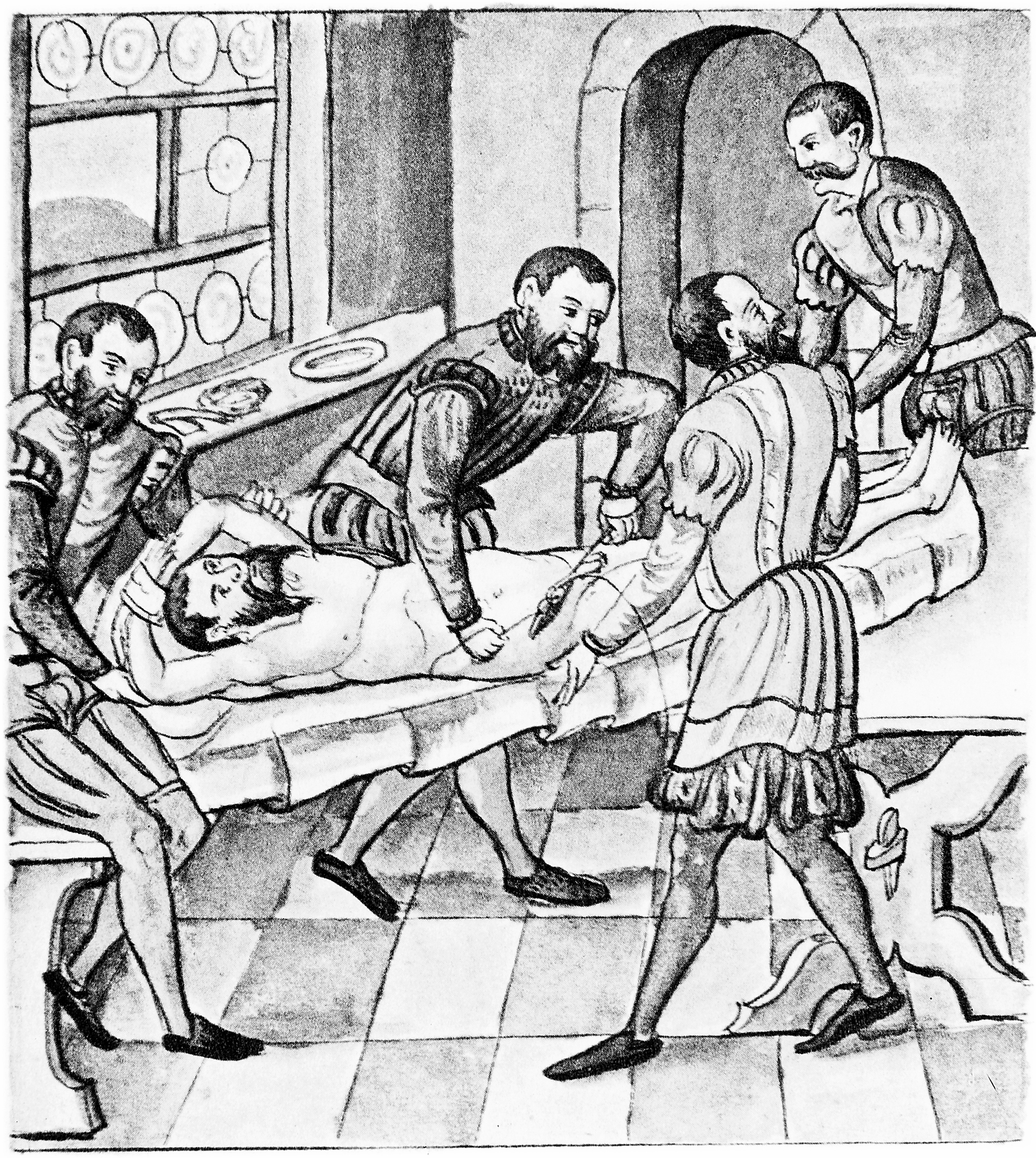 Sewing wound after herniotomy Wellcome Images Keywords: Caspar Stromayr; surgery, 16th century; hernia, 16th century; History of Medicine